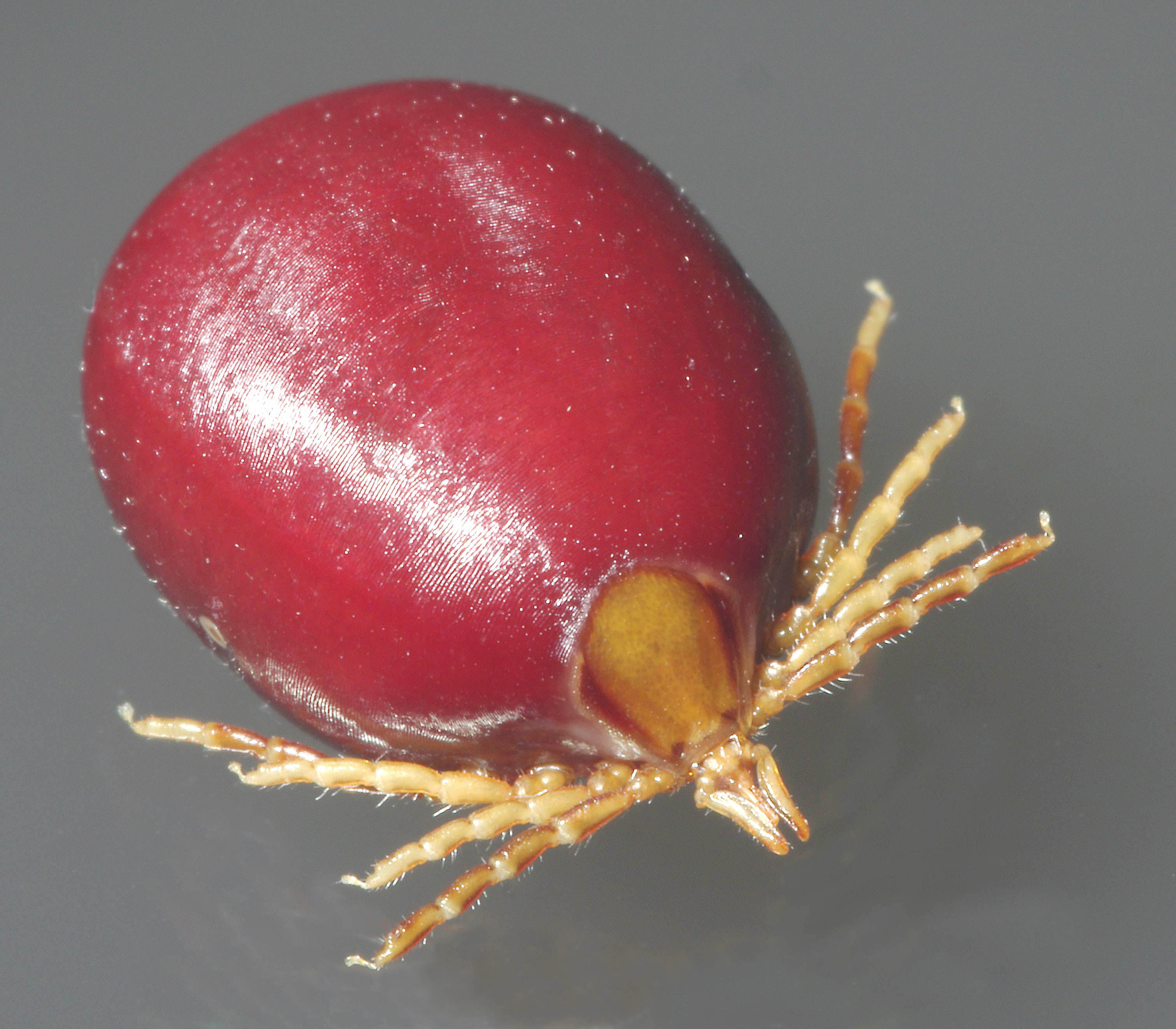 Engorged female of Ixodes holocyclus, cause of tick paralysis in Australia.